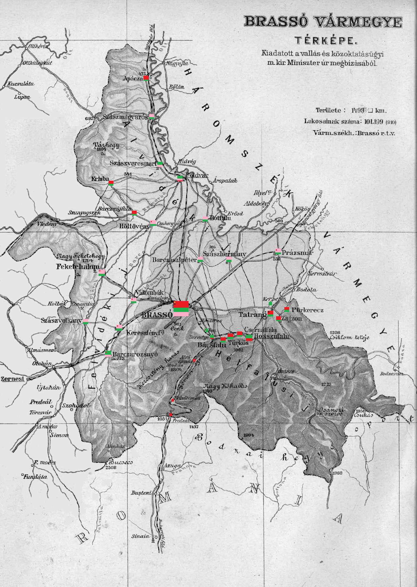 Ethnic map of the county (with data of the 1910 census). Key: pink - Germans; red - Hungarians; dark green - Romanians; black - Roma. Coloured dots in plain rectangles imply the presence of smaller minority populations (generally more than 100 people or 10%). Multicoloured rectangles imply cities and villages with multi-ethnic populations with the order of the stripes following the ethnic composition of the settlement.